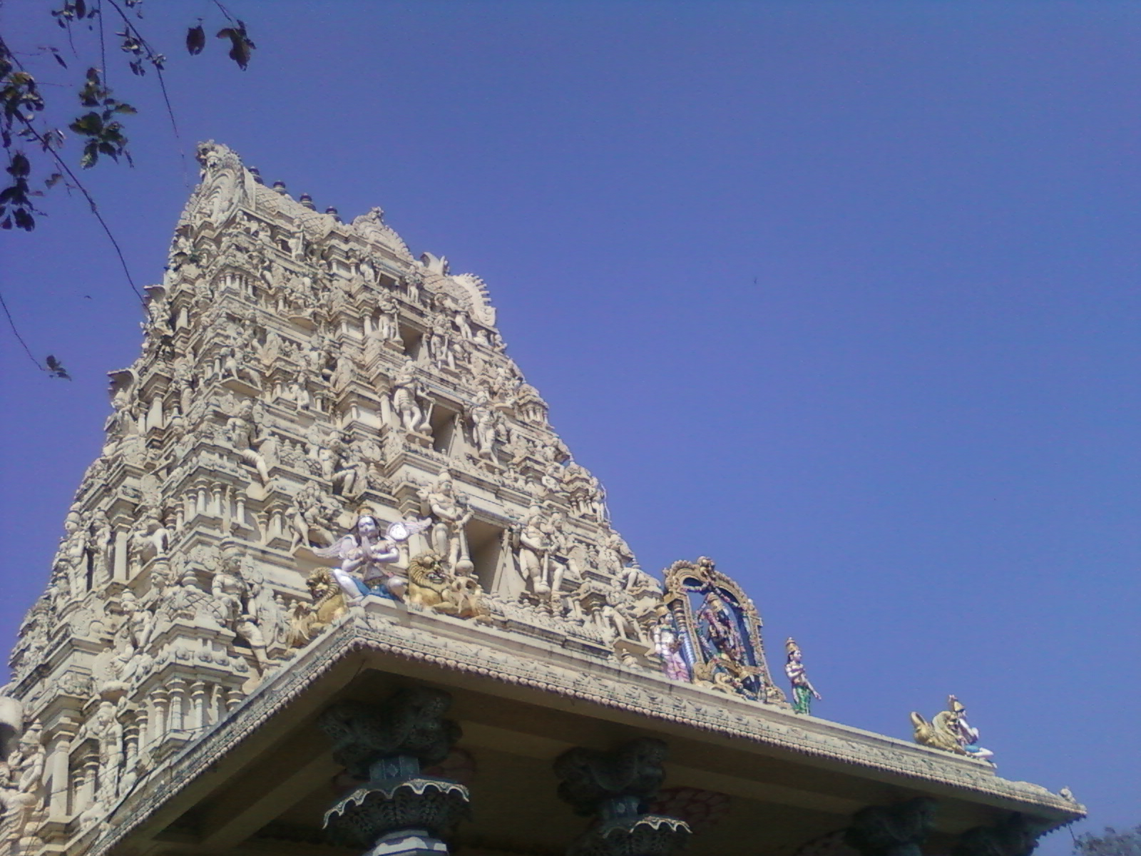 A view of South gopuram at Dwaraka tirumala temple